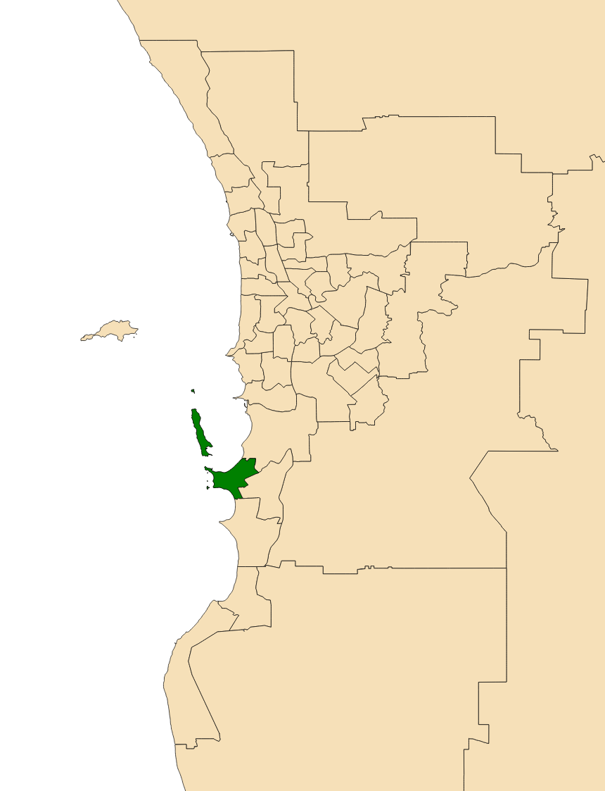 Location of the electoral district of Rockingham in the Perth metropolitan area, Western Australia as of the 2017 WA state election.